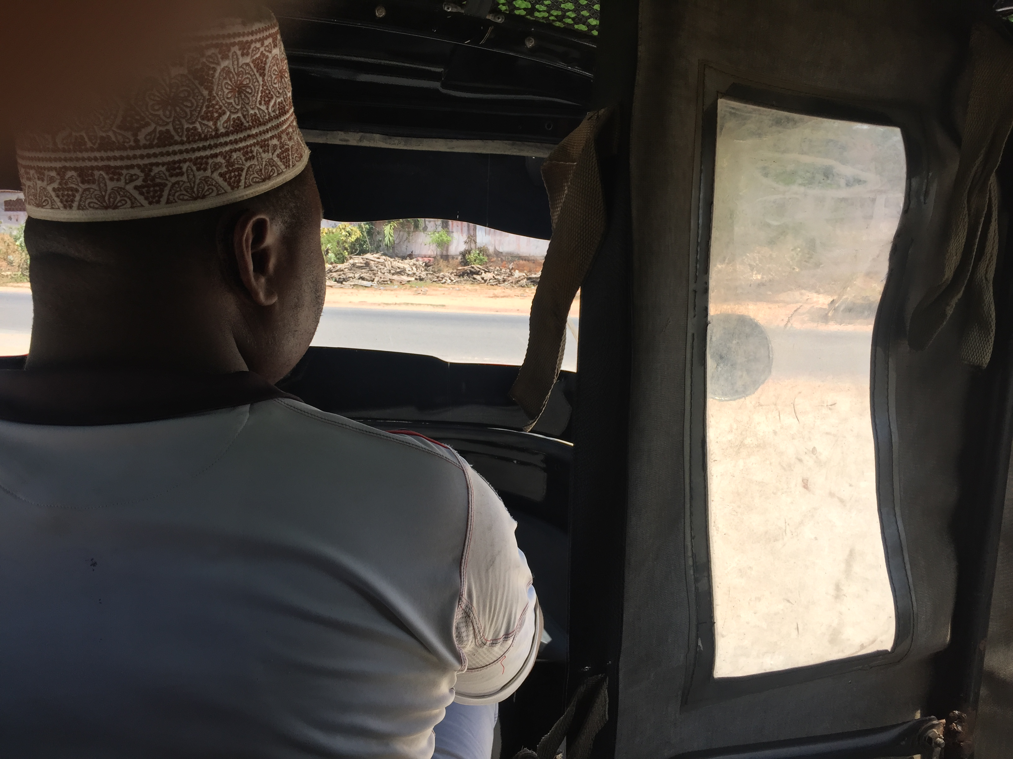 Tuk-tuk drivers nimbly weave their way through Mombasa traffic, getting you safely to your destination with a refreshing breeze. This is an image with the theme "Africa on the Move or Transport" from: Kenya